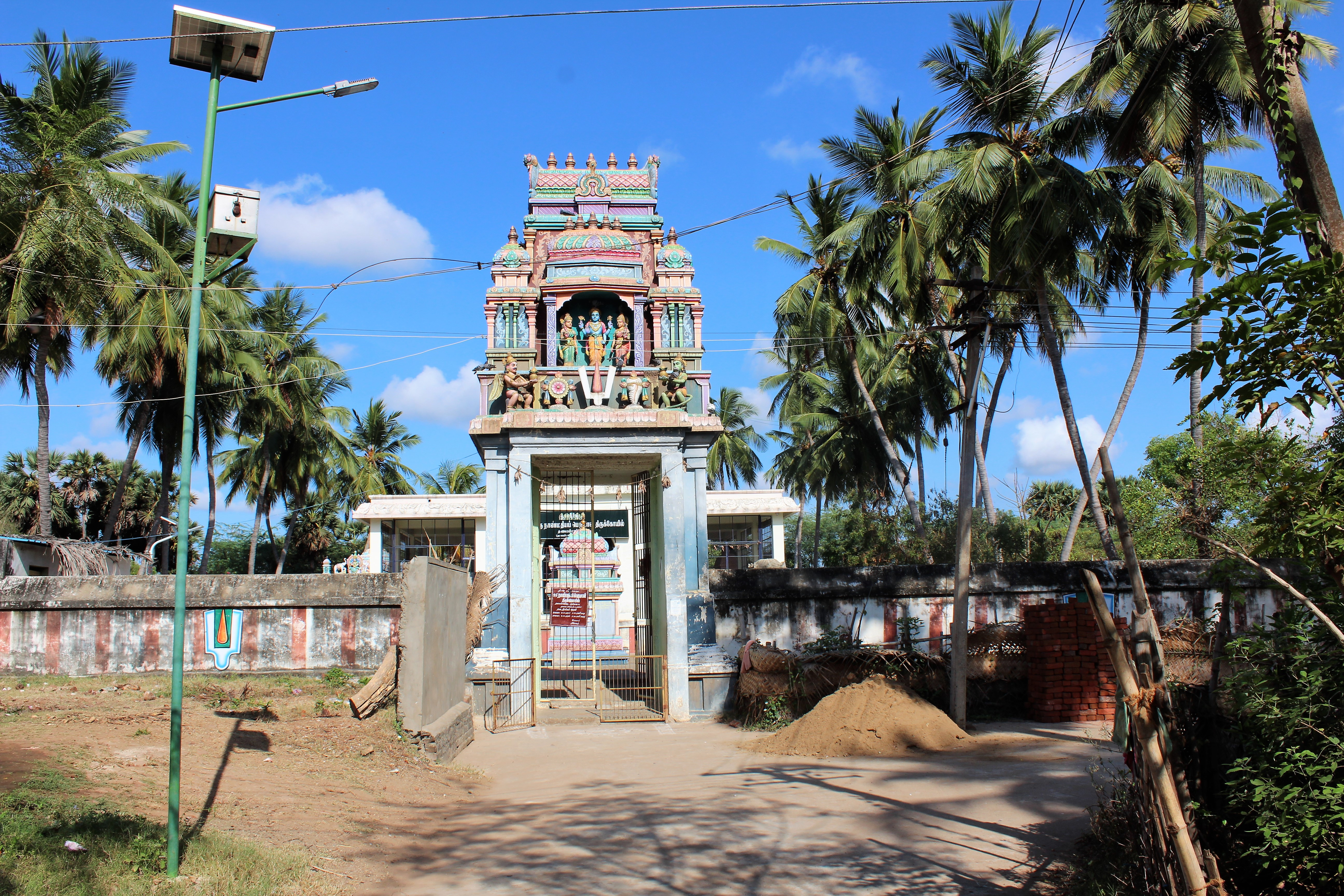 Nanmathiya Perumal temple, Thalachangadu